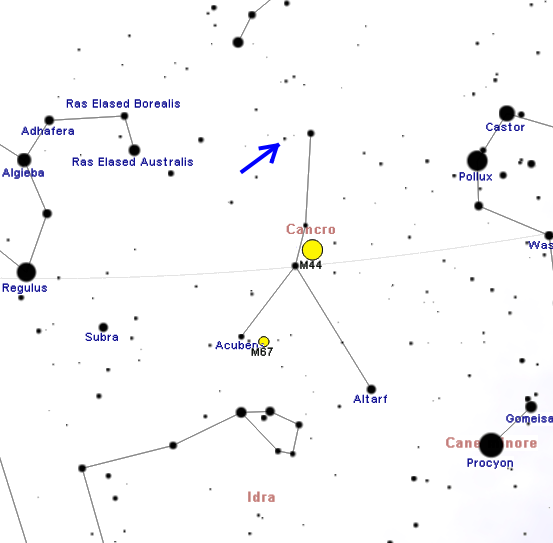 55 Cnc